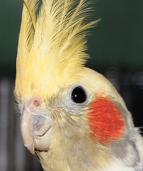 Our cockatiel "Rico's face" (Nymphicus hollandicus, Nymphensittich)